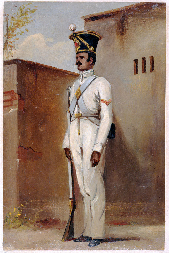 Lance Naik, 66th Bengal Native Infantry (Volunteers), 1842. Oil on paper by Ensign Alex Hunter (1825-1874), 30th Madras Native Infantry. National Army Museum Collection, London: NAM Accession Number 1965-11-68-1